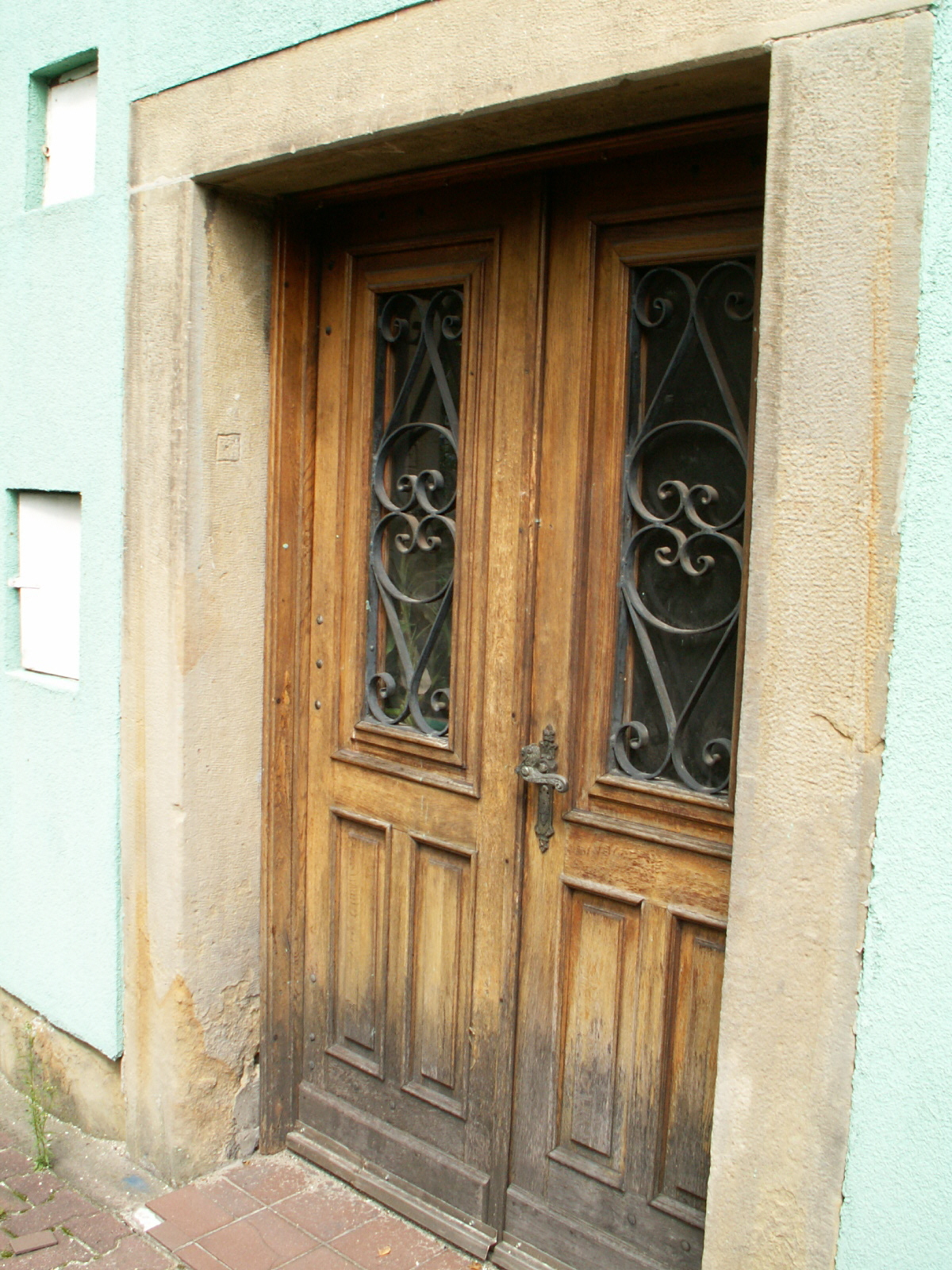 Synagogue in Kalwaria Zebrzydowska